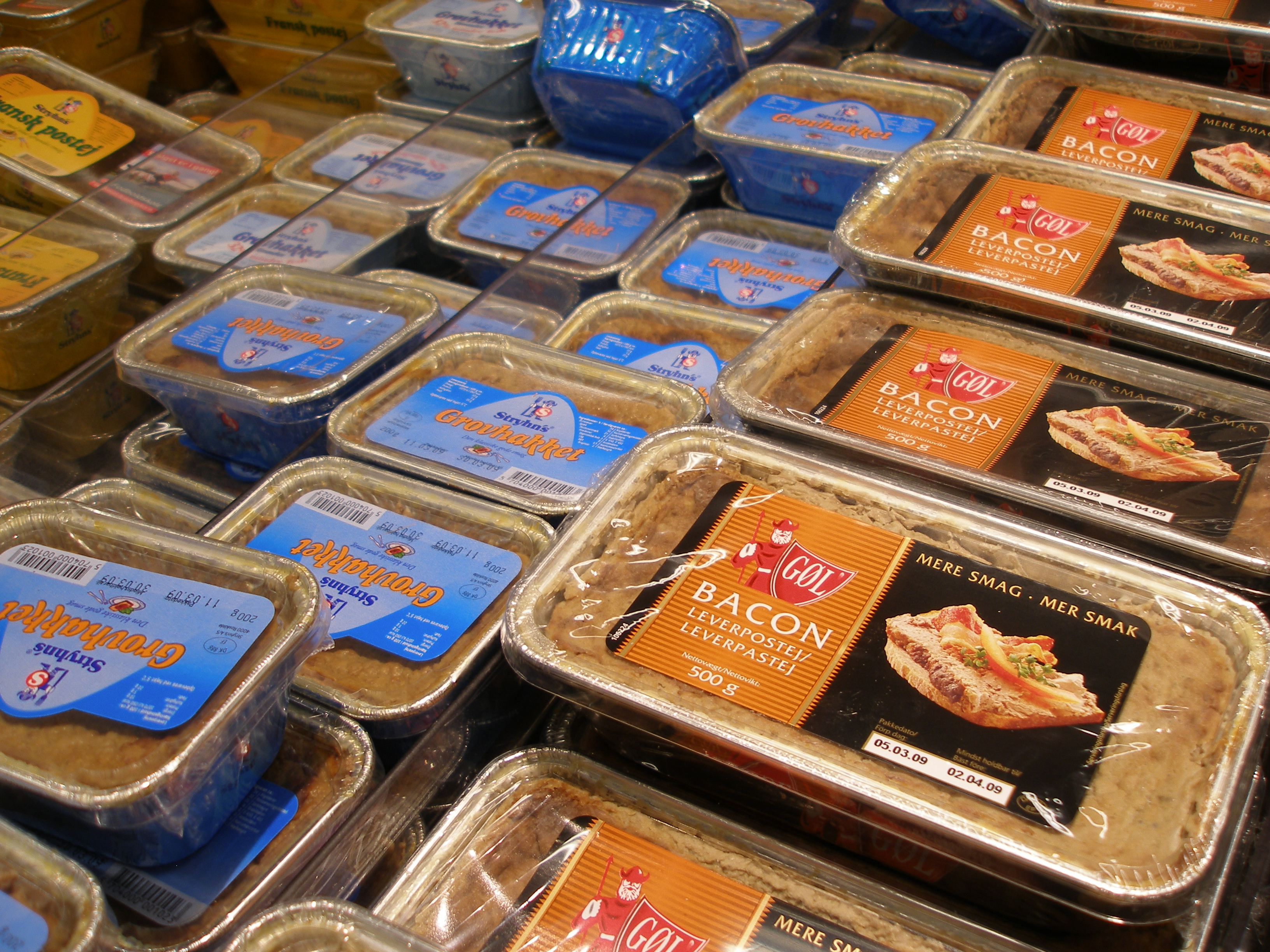 Danish leverpostej (liver paste)